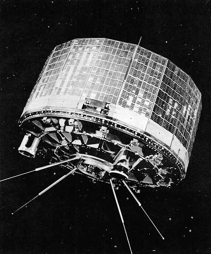 Viewed the Earth's surface, cloud cover, and atmosphere by means of TV cameras and radiations sensors. GSFC provided radiometer and electron temperature experiment. Other Name(s): Television and InfraRed Operational Satellite 7, Tiros 7, Tiros-G